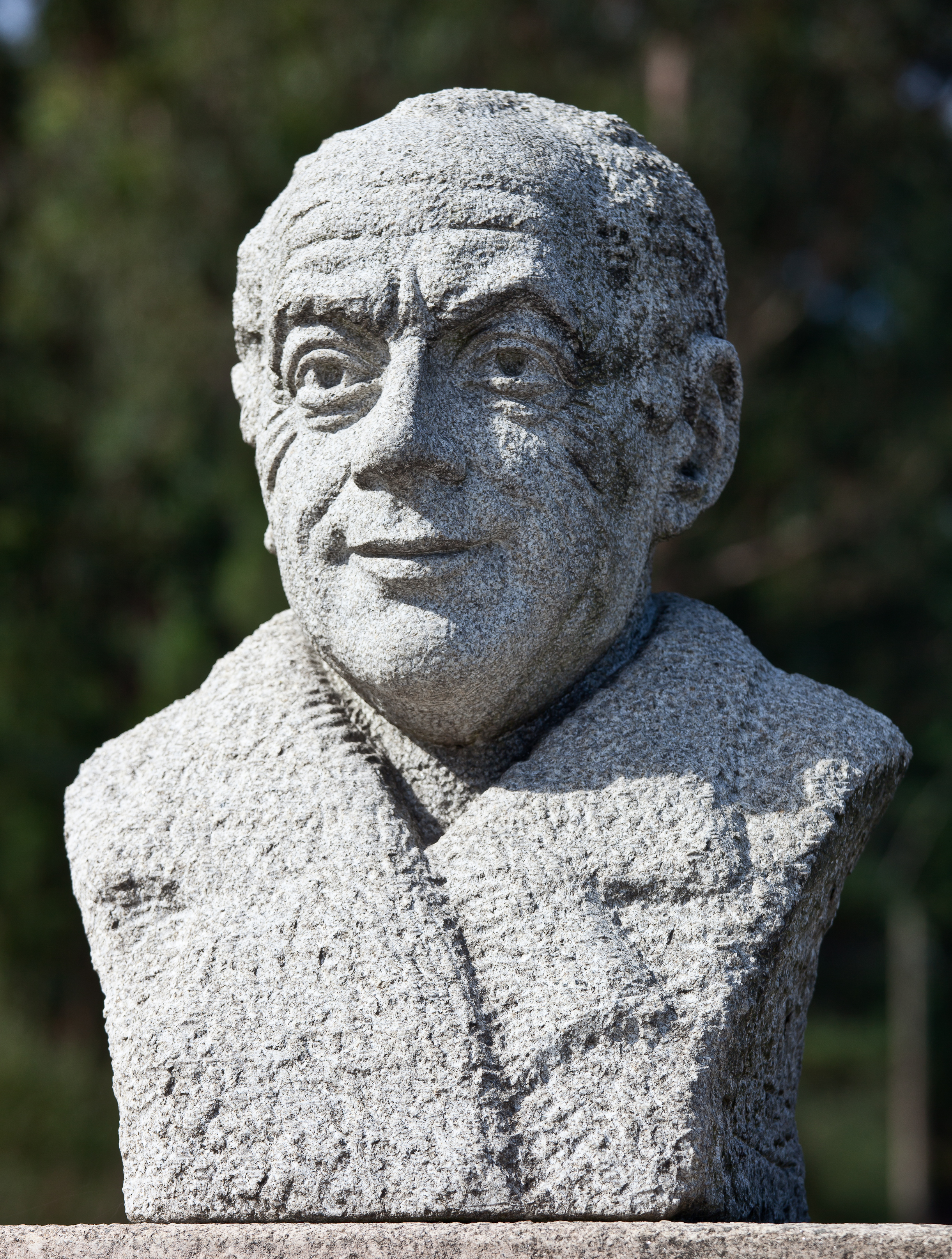 Manuel Reimóndez Portela. Galicia (Spain)